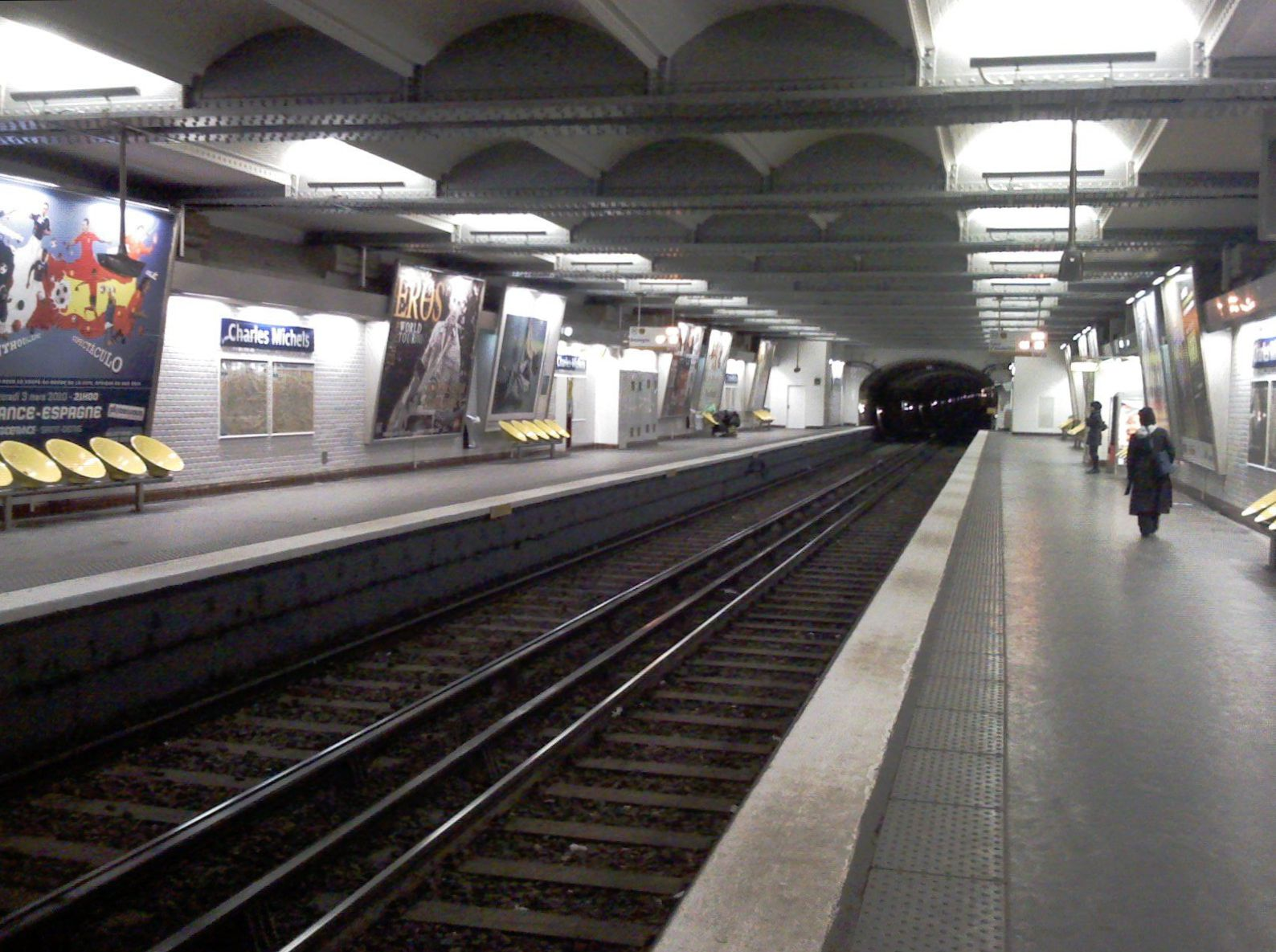 Charles Michel Station, on Paris Metro line 10, in 2009.